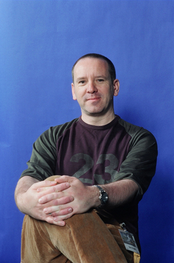 Photo of Gary Russell, released by him under a free licence.